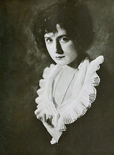 Dorothy Phillips